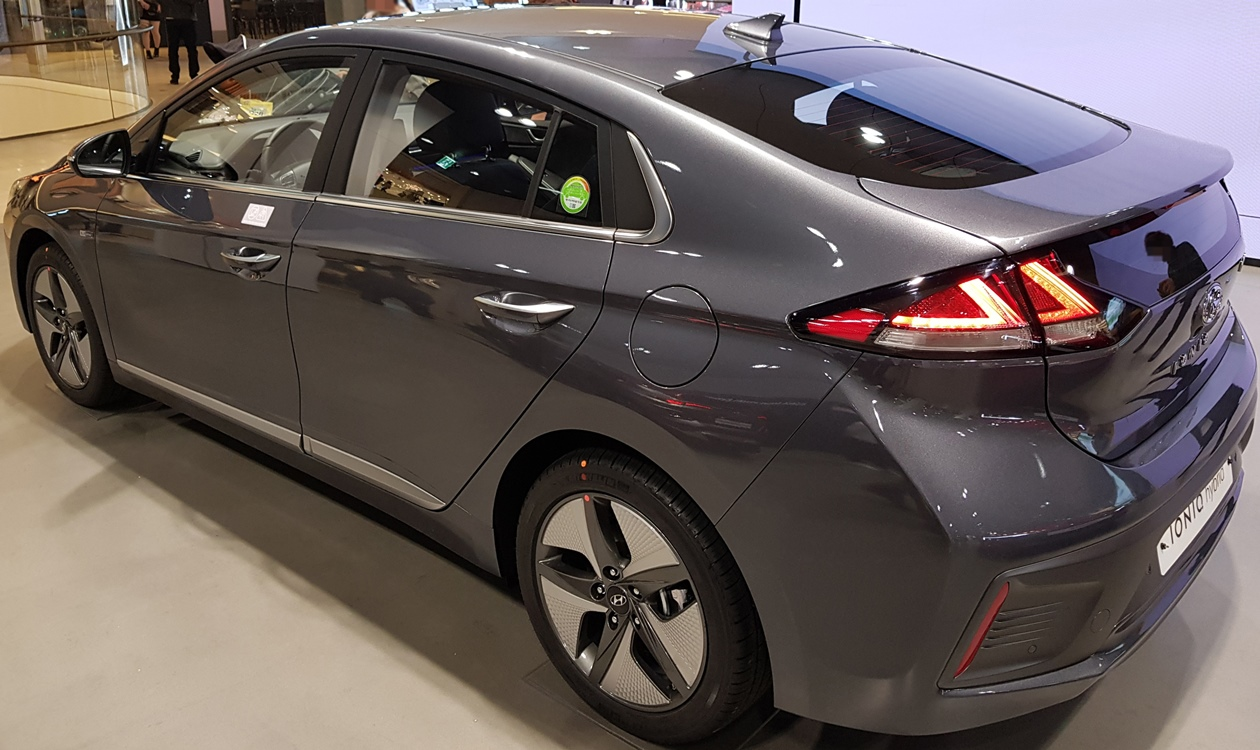 Hyundai Ioniq